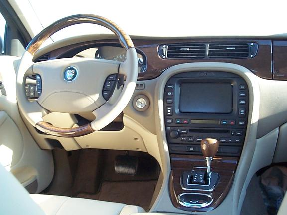 Interior of a 2004 V8 4.2L non-supercharged Jaguar S-type with optional navigation package